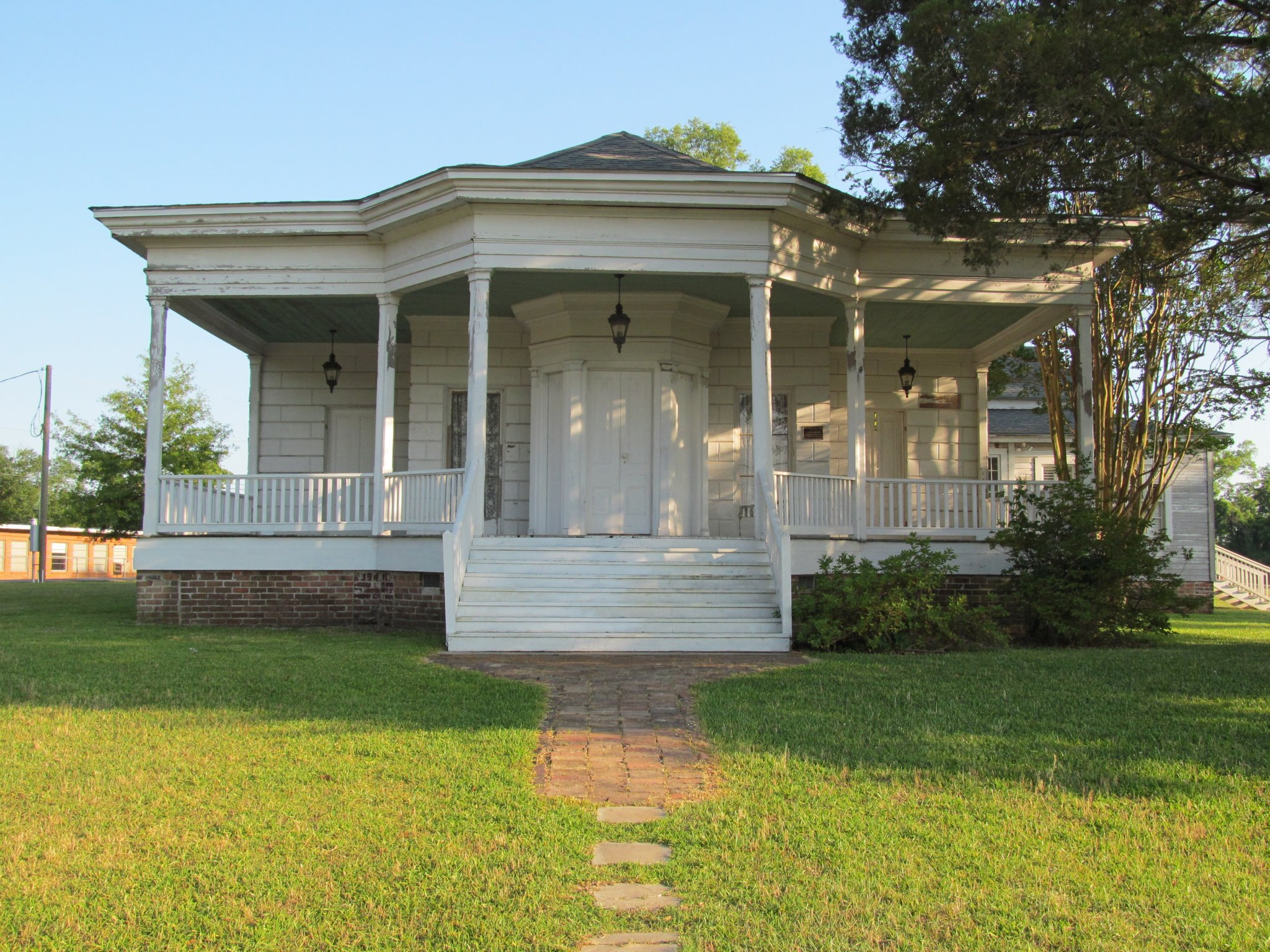 The oldest home in Jones County. Site of the murder of Major Amos McLemore by Newt Knight during the Civil War.